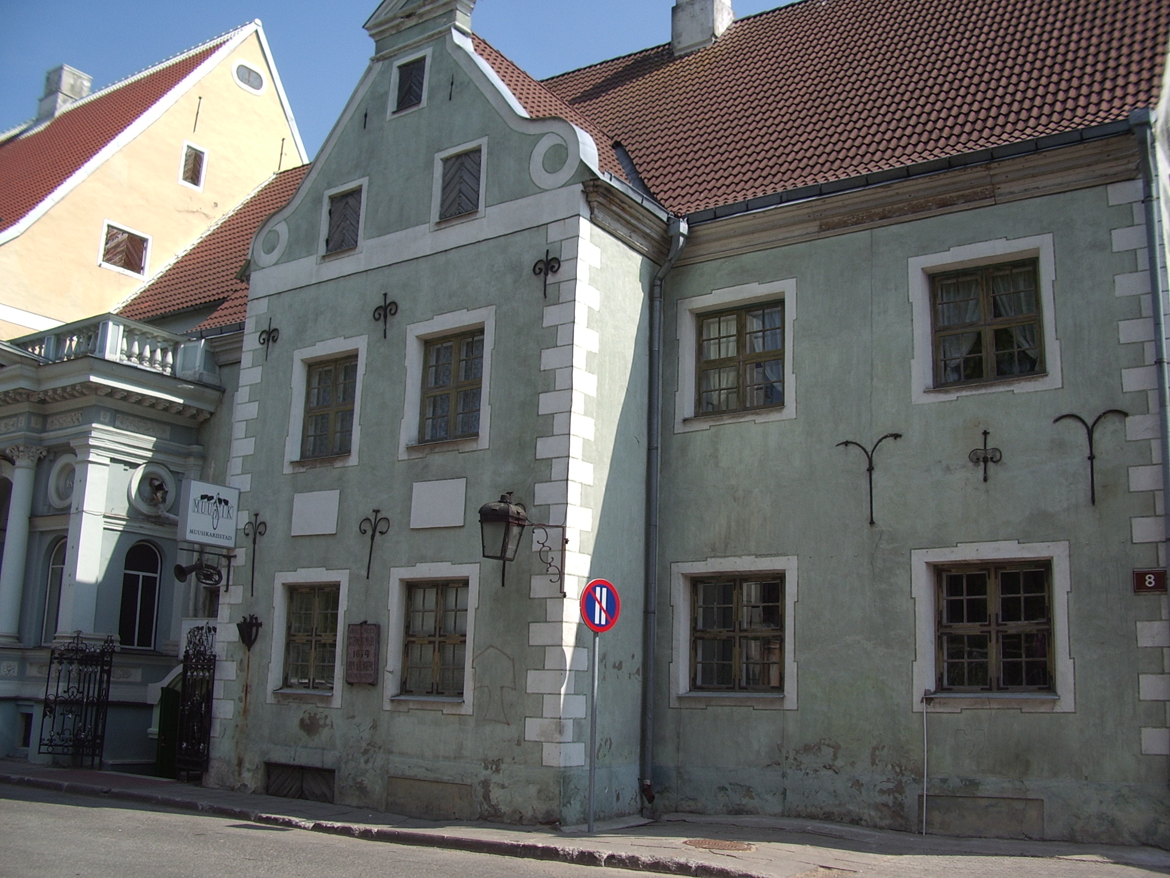 Seegi maja in Pärnu, the oldest building of the town, built in 1674